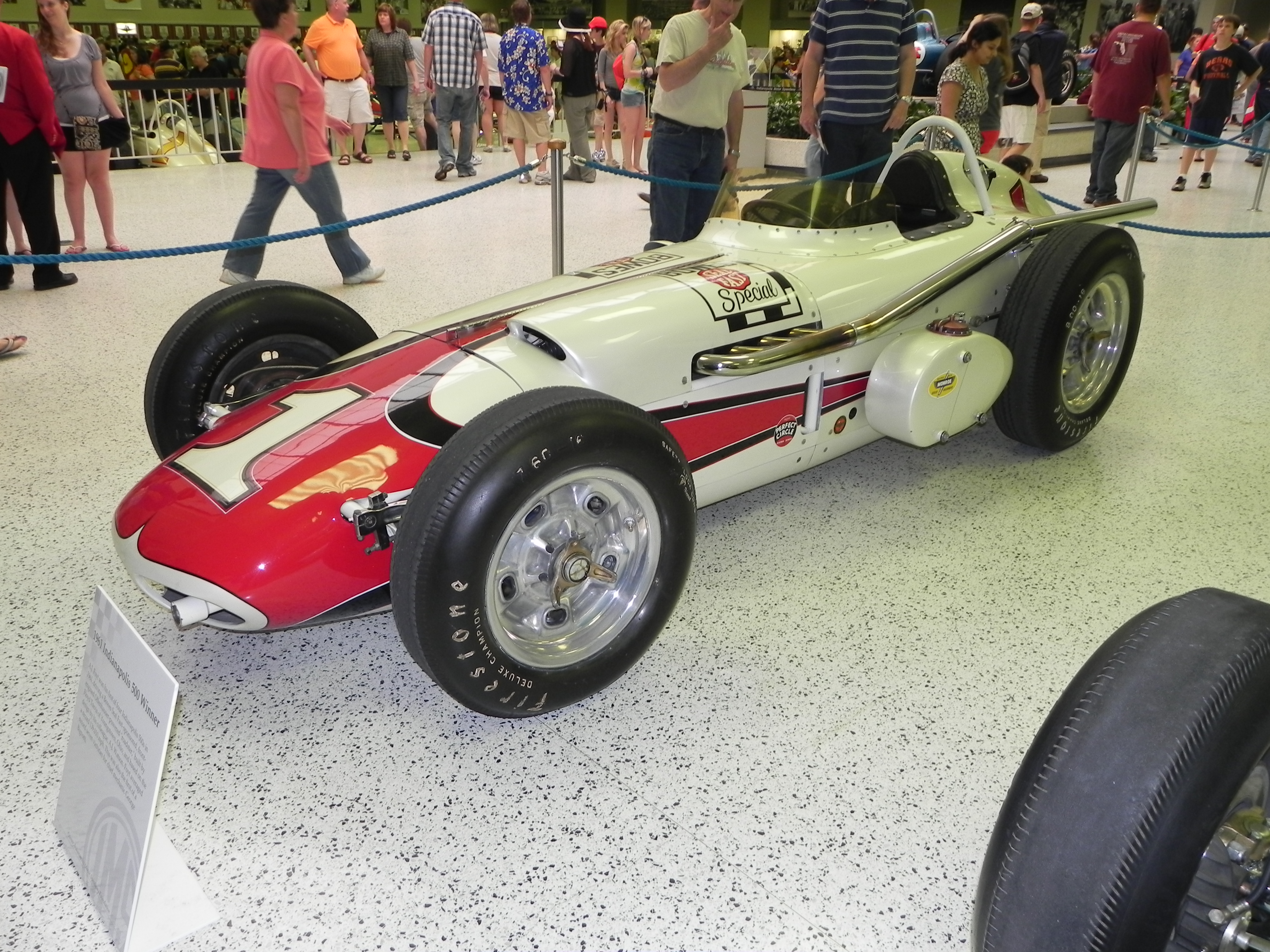 Image of the winning car of the 1961 Indianapolis 500 (A.J. Foyt). Photo was taken at the Indianapolis Motor Speedway Hall of Fame Museum, during the month of May 2011, at the 100th Anniversary "Ultimate Indianapolis 500 Winning Car Collection."